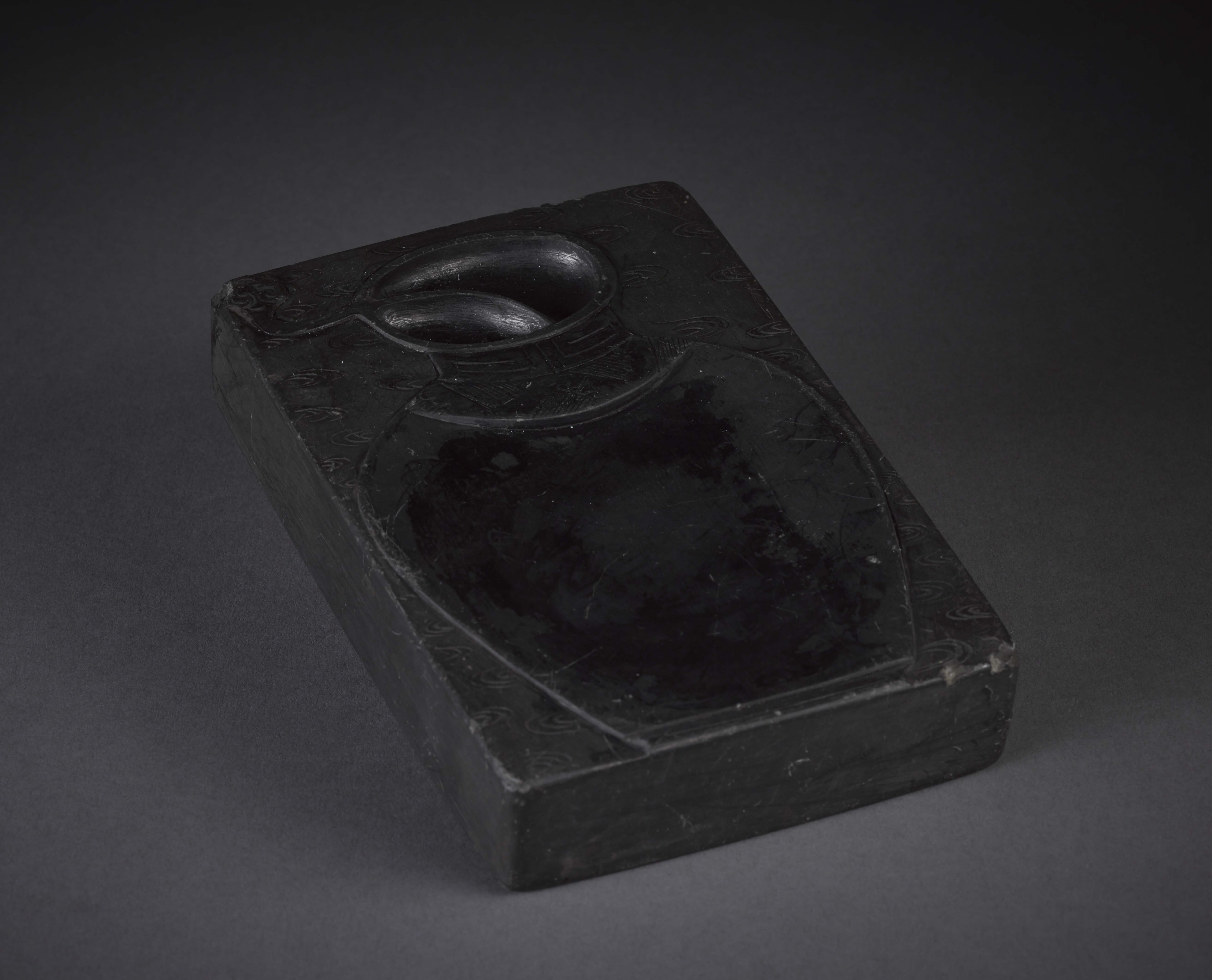 This inkstone depicts an image of a jar with cloud motifs in the background. The mouth of the jar is divided into two deep wells. This object is currently housed in the Oxford College Archives of Emory University.